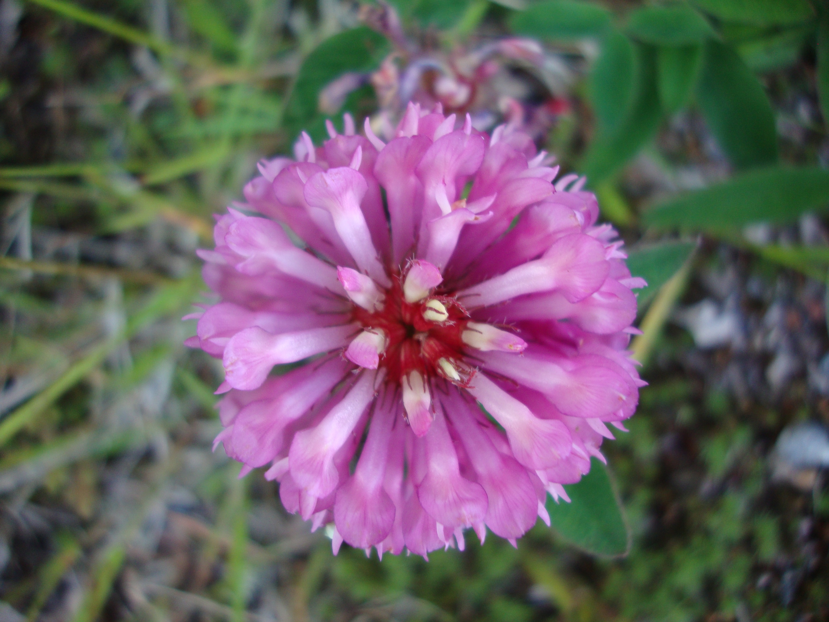 Trifolium medium in Kerava, Finland